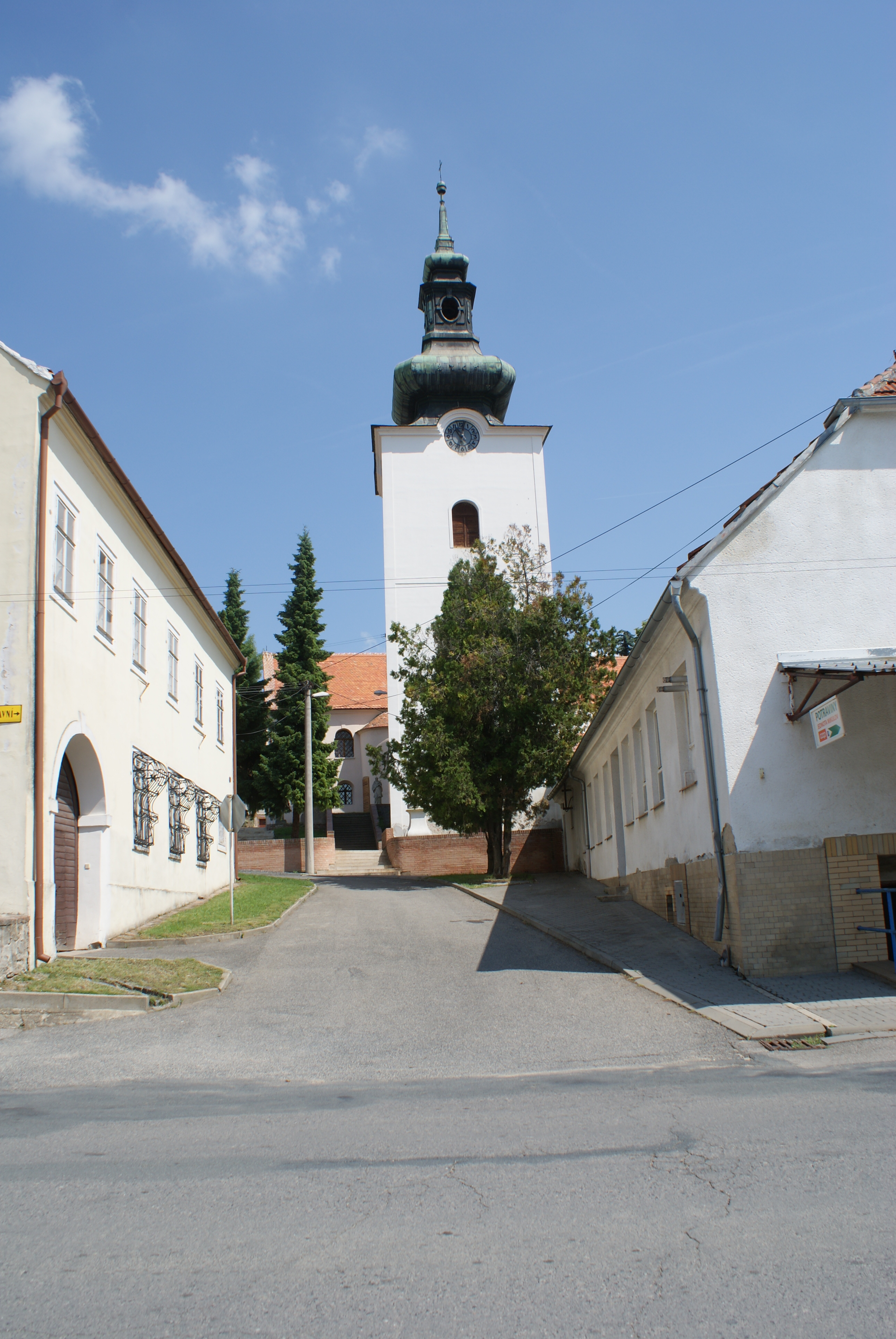 Přítluky, a village in Břeclav District, Czech Republic, church of St Margaret.